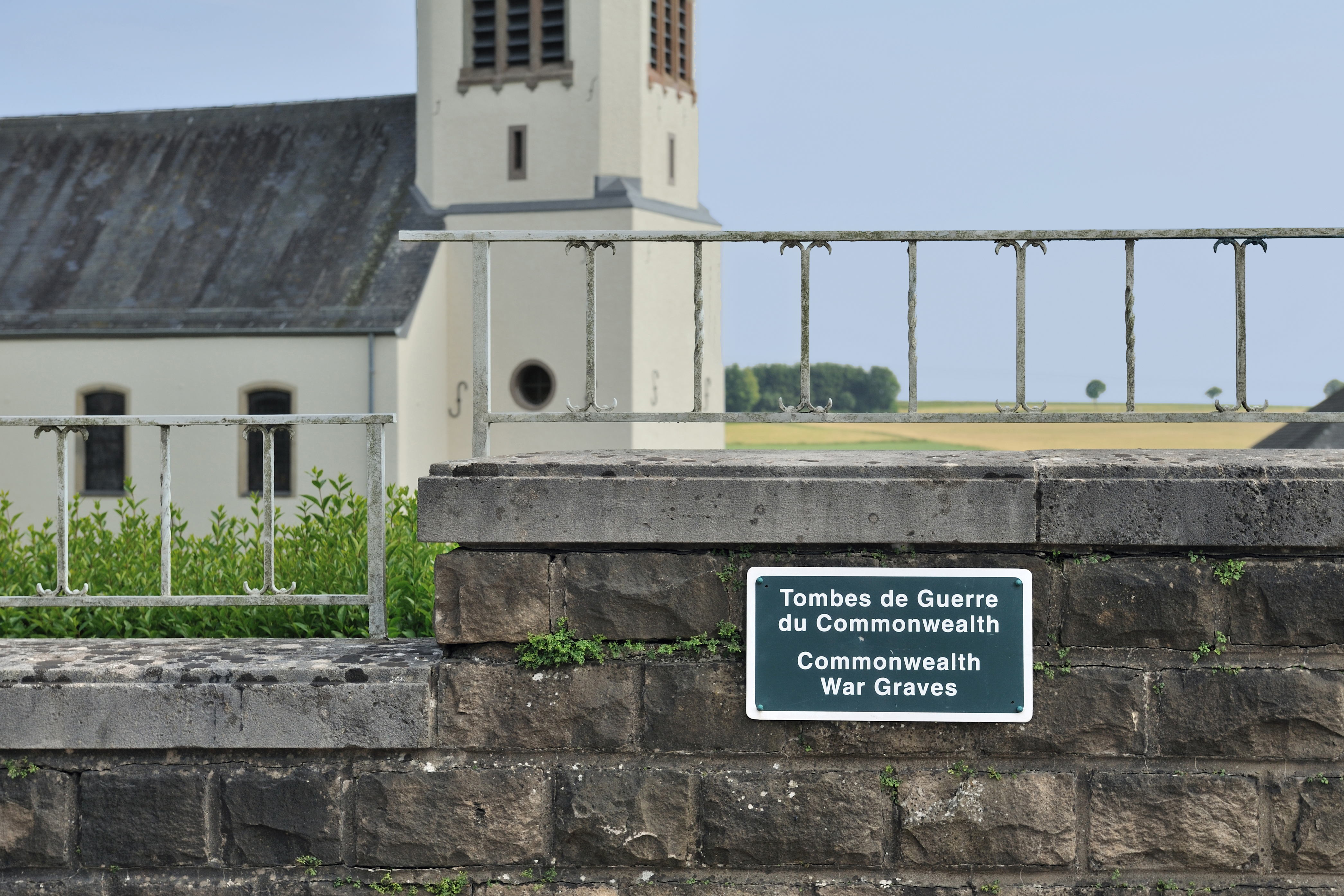 Rambrouch, Luxembourg: Plaque on the wall surrounding the cemetery to indicate the presence of war graves. The graves are those of three crew members of the Halifax bomber that crashed in September 1942 in a nearby forest.